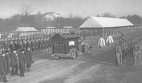 State funeral of Kinmochi Saionji